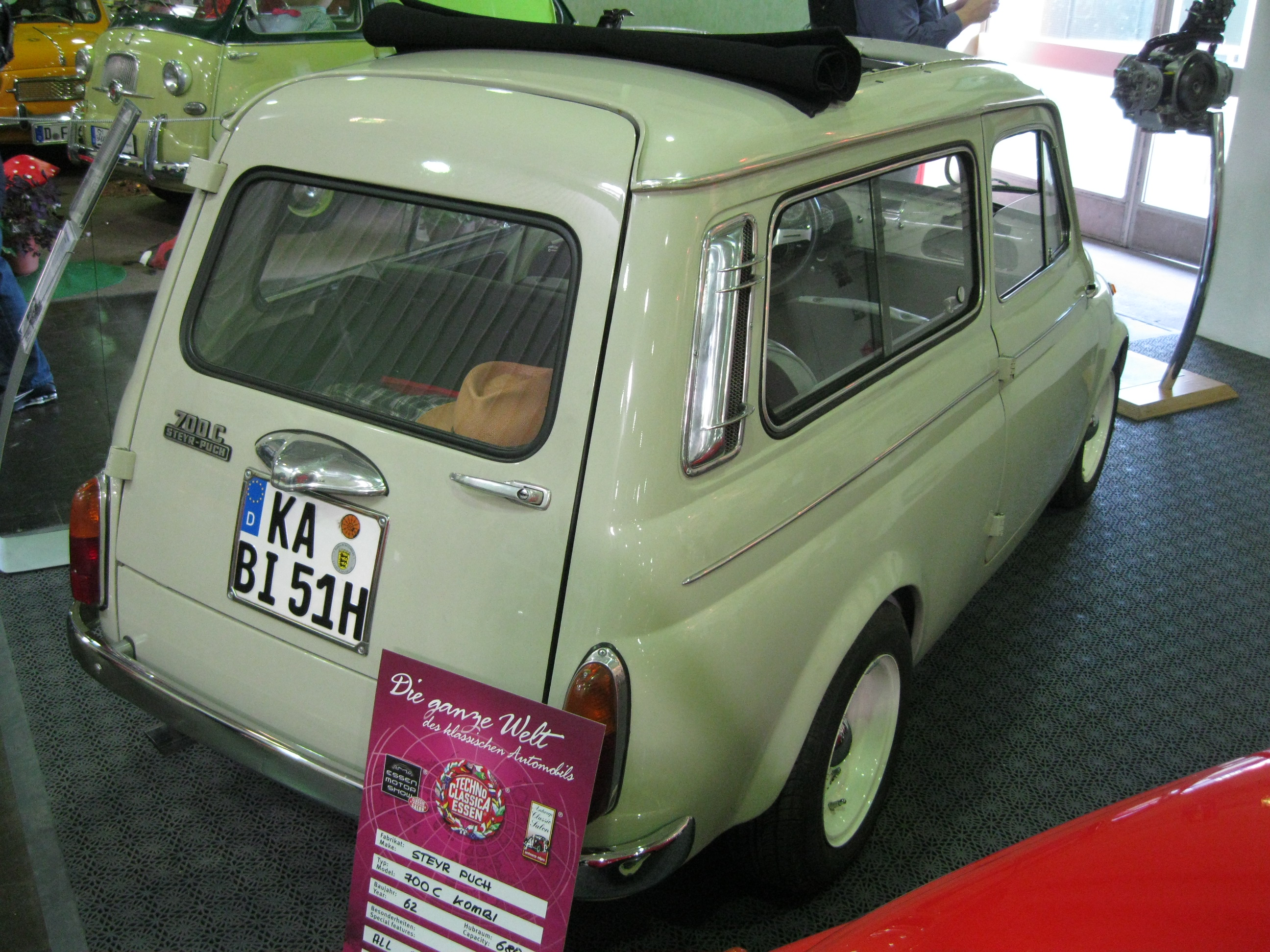 Austrian derivative of the Fiat Nuova 500 Giardinetta